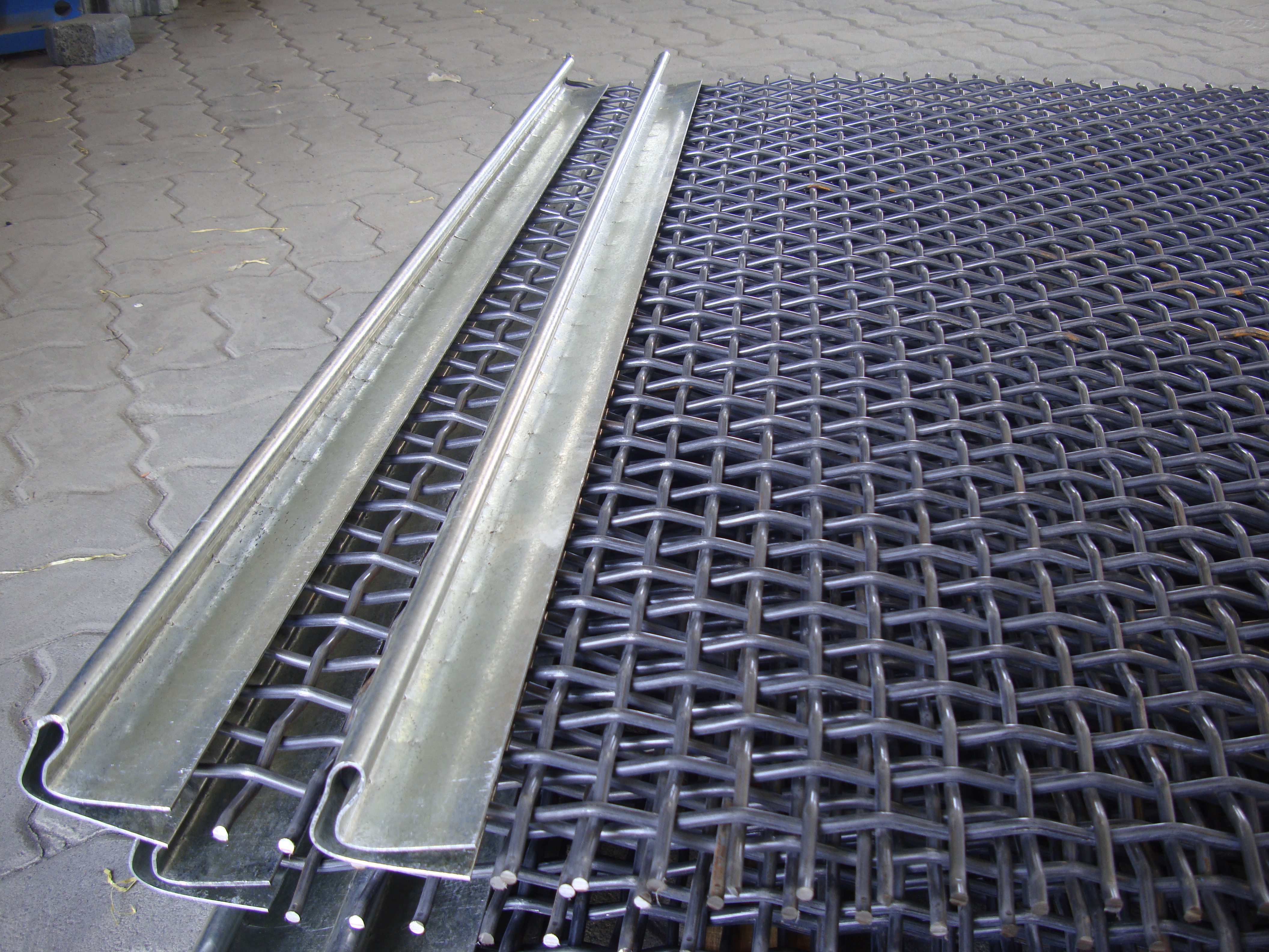 Highly efficient vibrating screen cloth, available in varied sizes and dimensions, manufactured from the optimum quality wires using high technology machines.